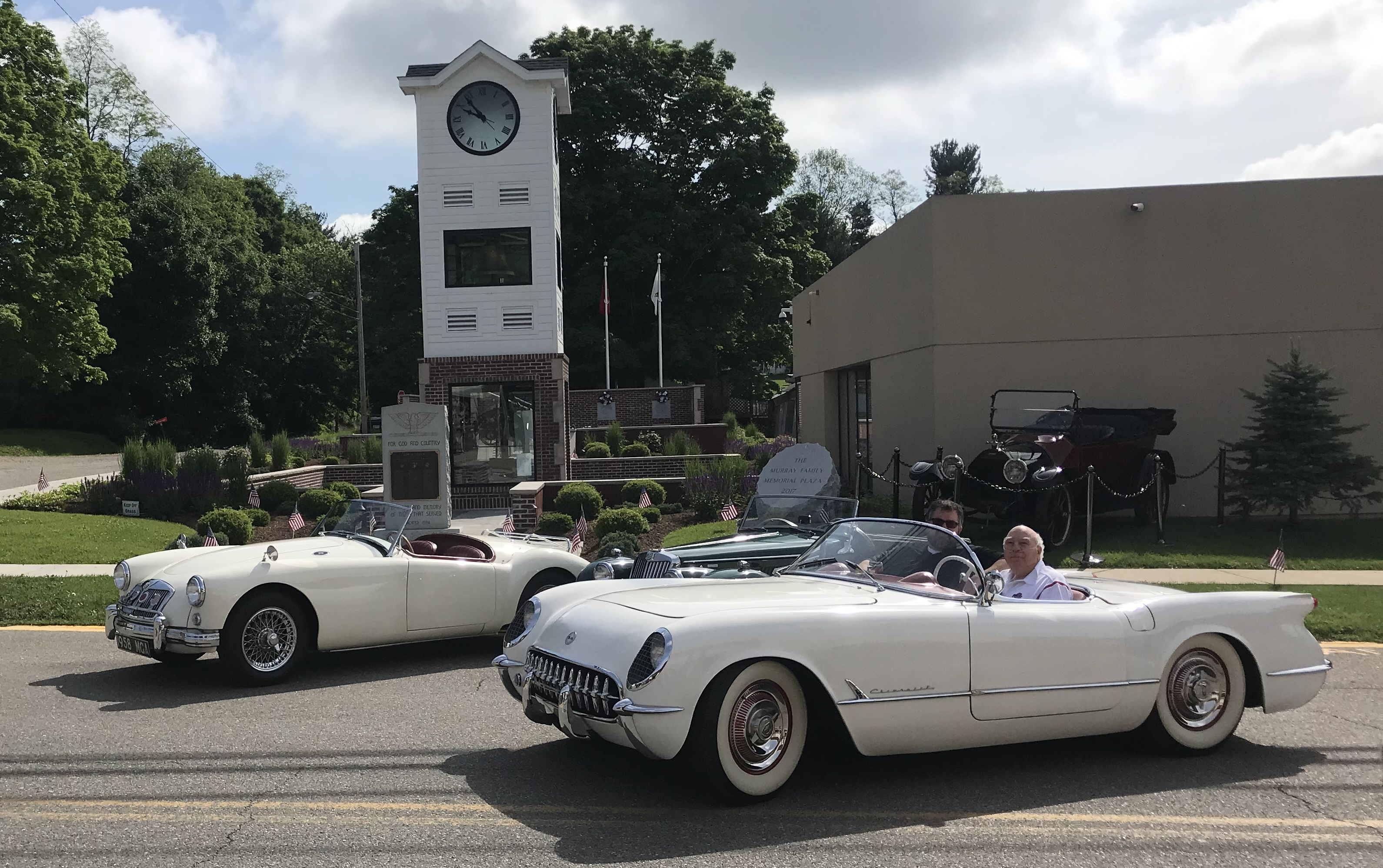 Mr Murray and son John in his 1954 corvette in front of the clock Tower